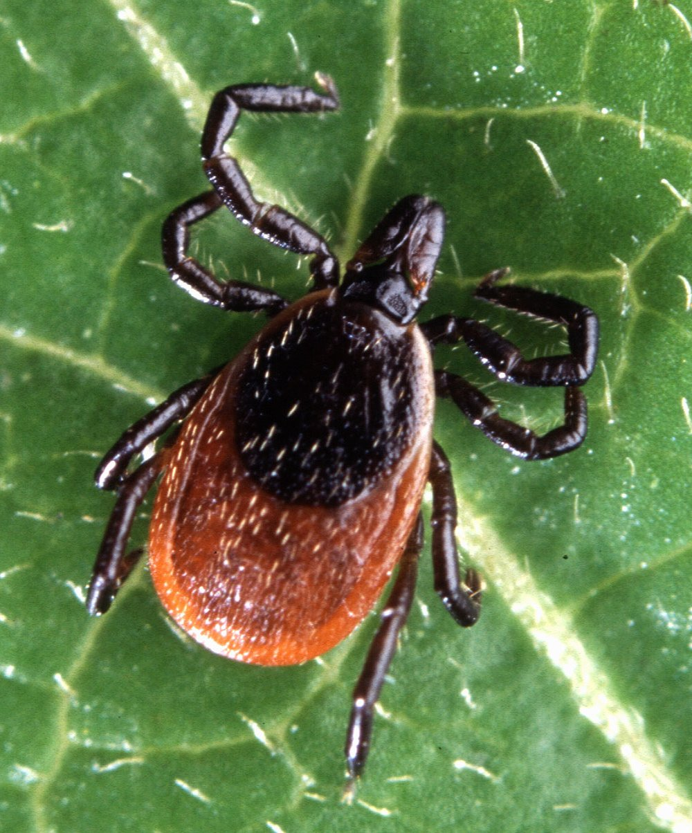 Adult deer tick, Ixodes scapularis.